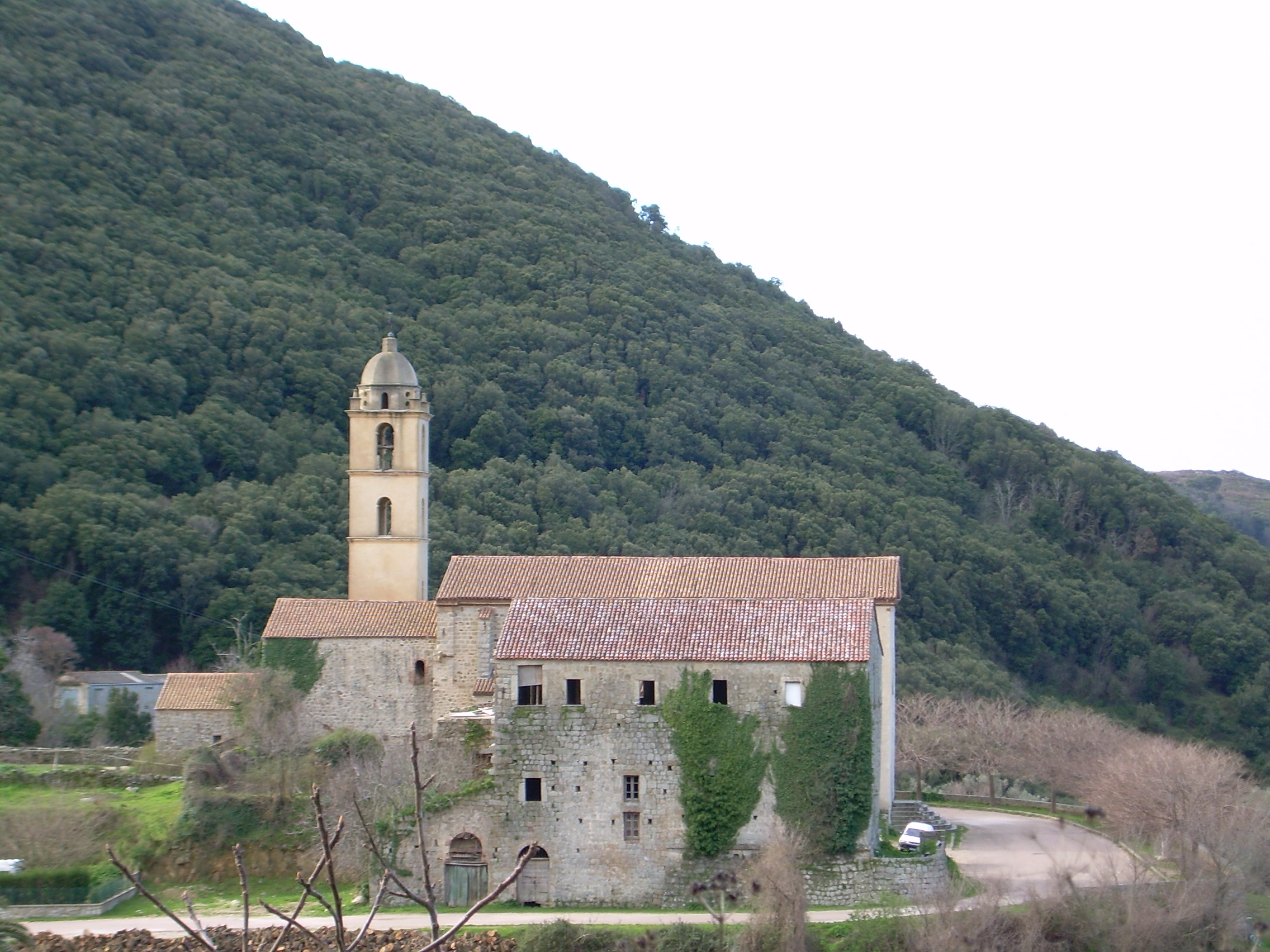 St-François convent- Ste Lucie de Tallano